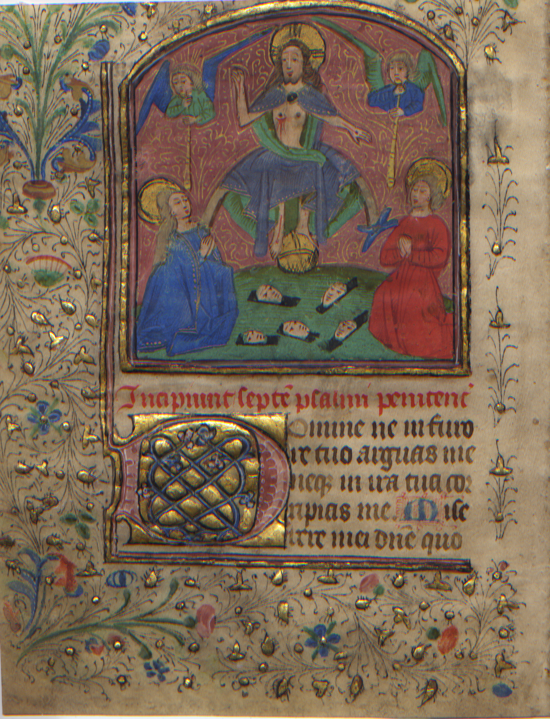 A vellum miniature from a 15th century Book of Hours done in the south of France, the miniature measures 77 x 71 mm and the whole page 146 x 116 mm. The text is from Psalm 6.